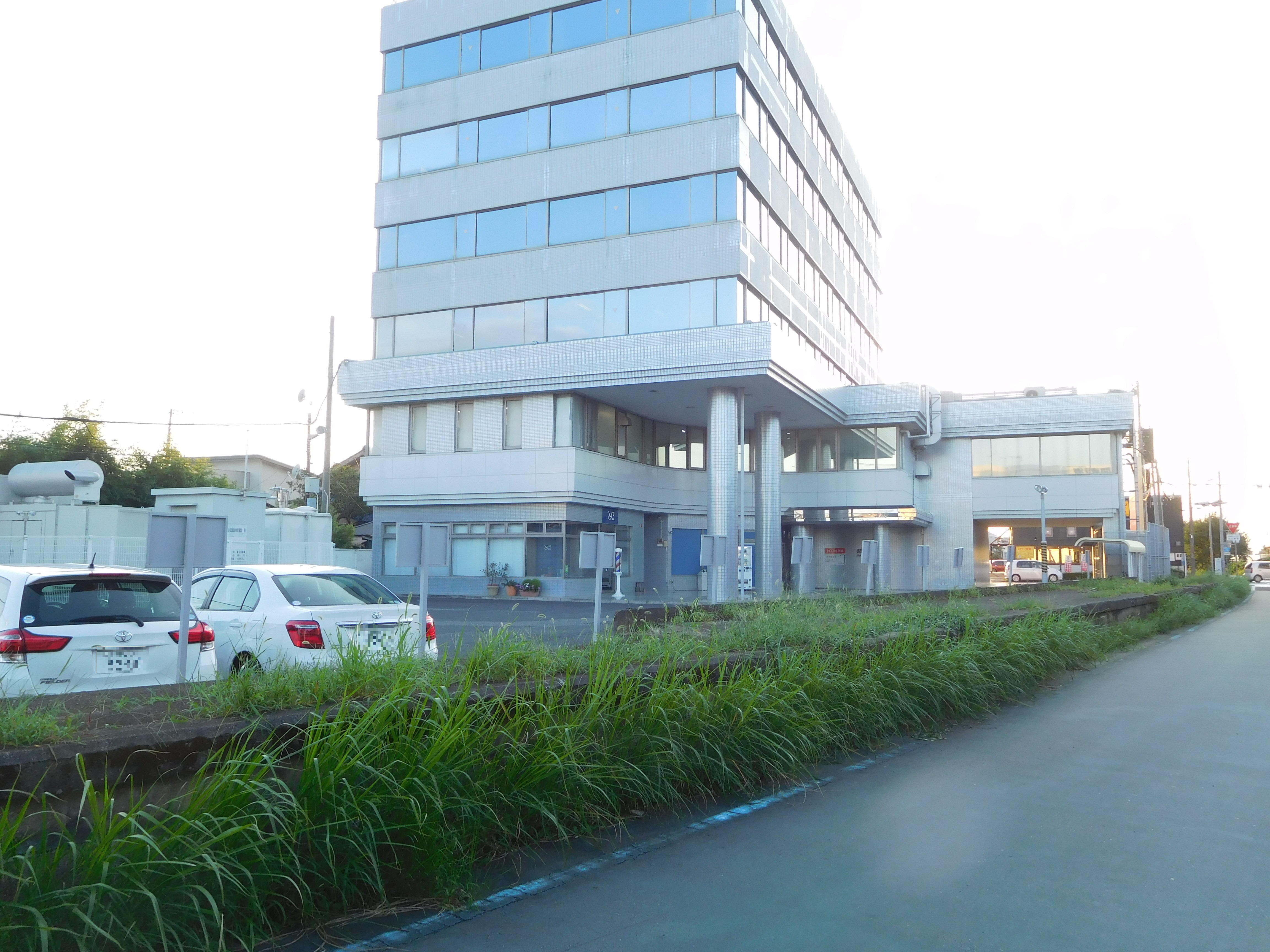 This is the site of Shin-Tsuchiura station in Tsuchiura, Ibarakim Japan.